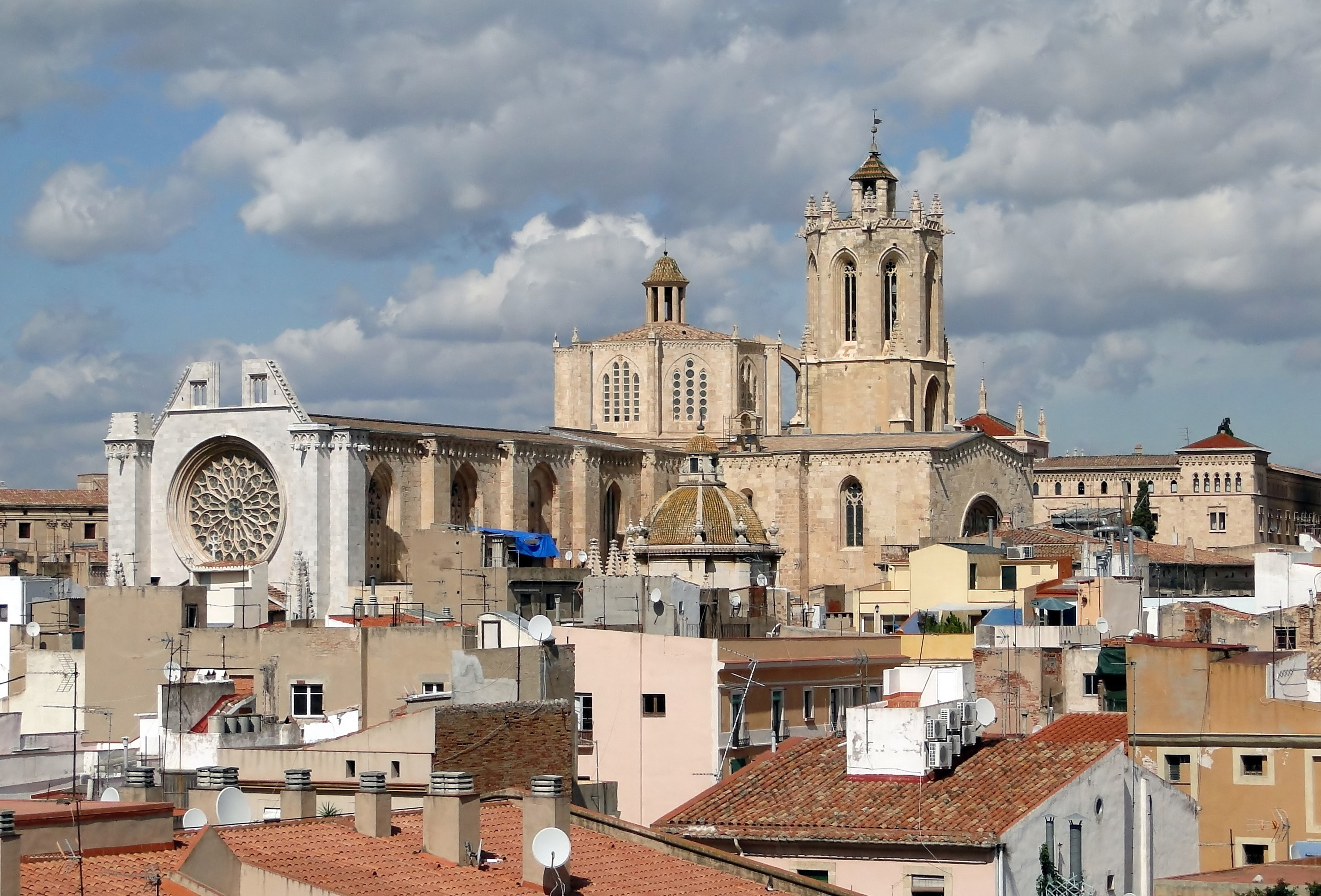 View of Tarragona Cathedral which is dedicated to Saint Thecla, Tarragona, Spain